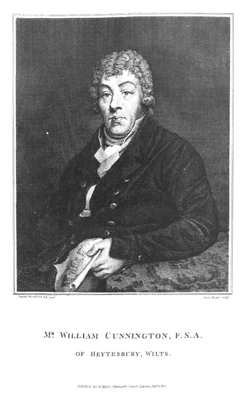 Portrait of the pioneer archaeologist William Cunnington I (1754 to 1810)